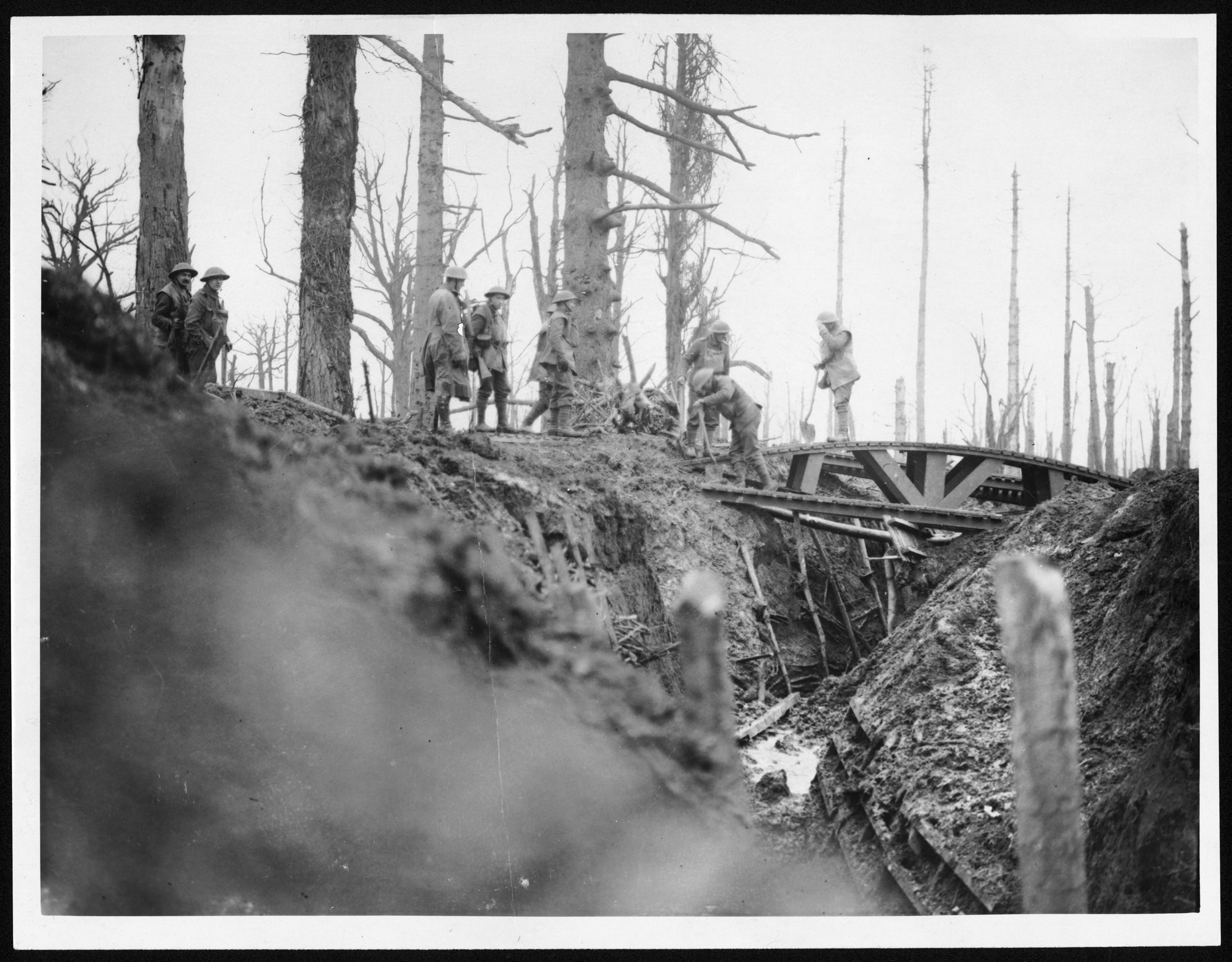 Bridging a trench, Western Front, during World War I. British soldiers, possibly Royal Engineers, setting bridges across an abandoned German trench. The bridges seem to be pre-fabricated sections and the soldiers are using spades to bed the sections into the trench edge. The derogatory term for a German, 'Boche' or 'Bosch', originates from the French slang 'alboche', which was two words 'Allemand' (German) and 'caboche' (pate, head) put together. [Original reads: 'Bridging a once Boche trench.']